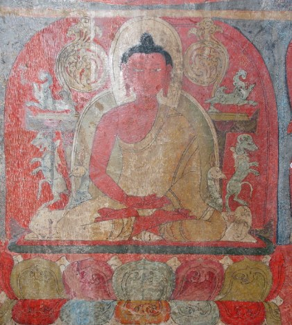 detail of wall painting in a Buddhist temple in LadakhIndia